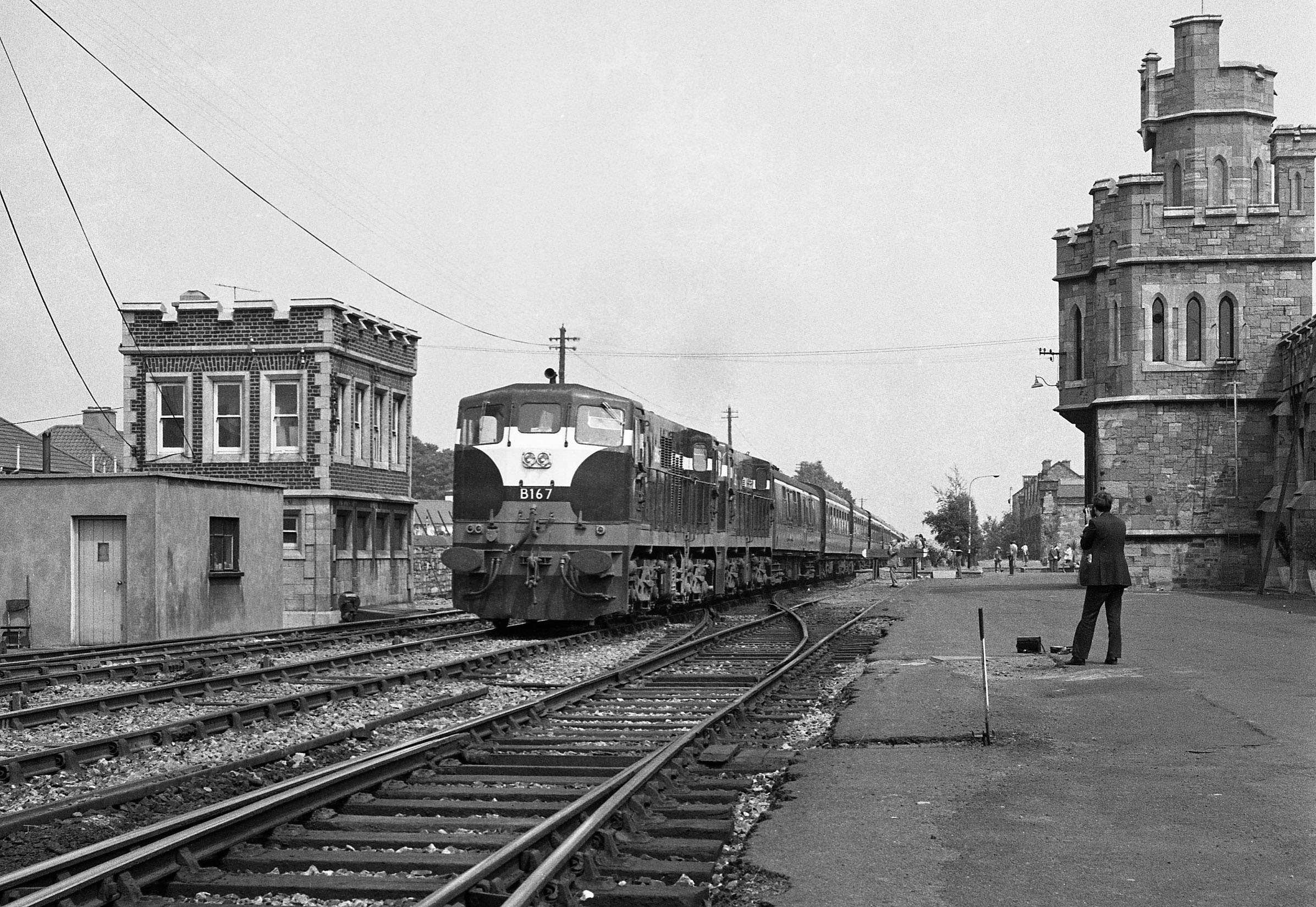 Constructed by the Great Southern & Western Railway and opened in 1846, the works at Inchicore built locomotives and rolling stock for the GS&WR, the Great Southern Railways, CIÉ and IÉ; although in recent years it has reduced to little more than a maintenance facility. General Motors built CIÉ class B141 No. B167 hauls the 14.30 Dublin (Heuston) – Cork passenger express past the works. Note: Photograph taken during an organised visit – the works are not open to the public.